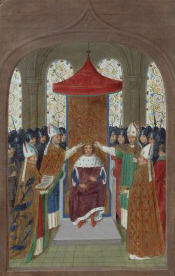 Coronation of Henry IV. of England; illustration from Jean de Wavrin's Les chroniques d'Angleterre (second half of the 15. century)